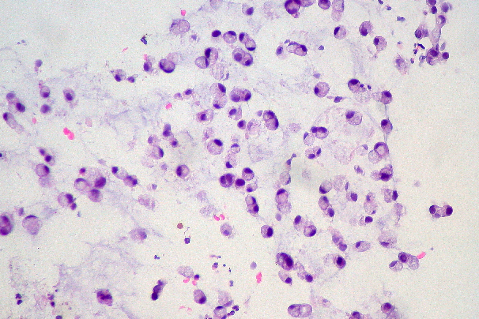 In an adenocarcinoma of the colon of a man who presented with widely metastatic disease and no localizing symptoms. Pathological and histological images courtesy of Ed Uthman at flickr.